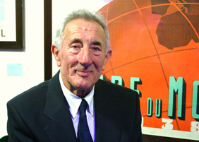 Eric Jone at the National Football Museum, Deepdale, Preston